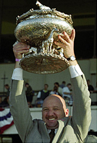 KennyMcPeek -- 2002 Belmont Stakes G1 win with Sarava